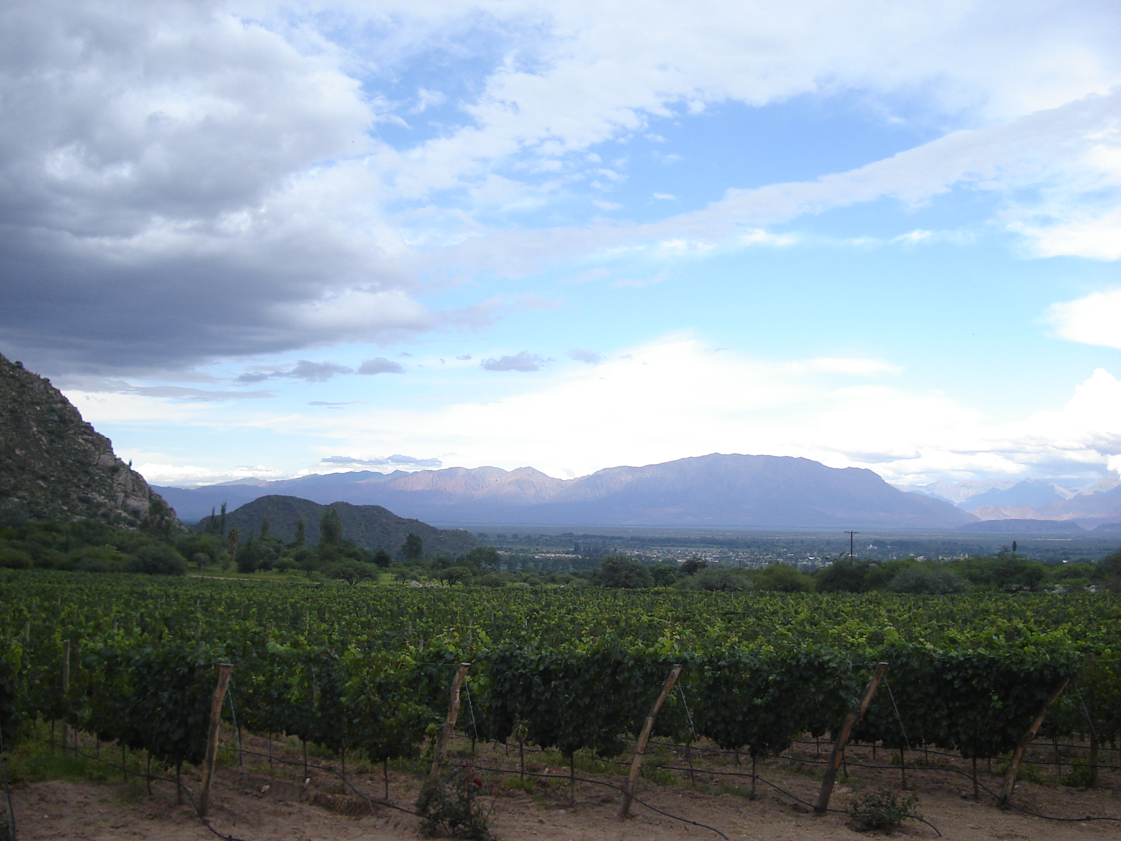 A winery near Cafayate, Salta Province (Argentina).